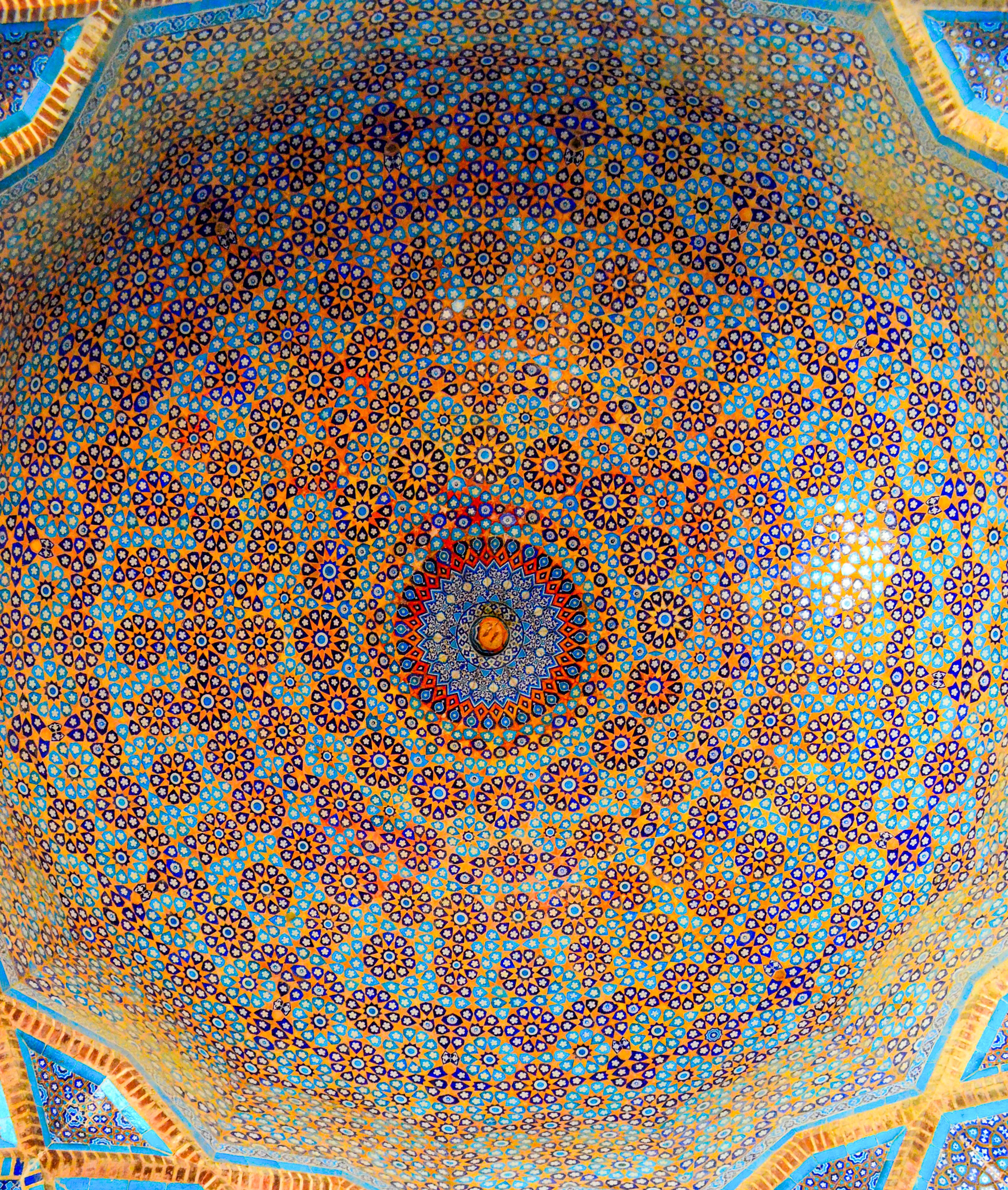 Ornate details of the roof representative of the classic Mughal style - Shah Jahan Mosque, Thatta This is a photo of a monument in Pakistan identified as the SD-90